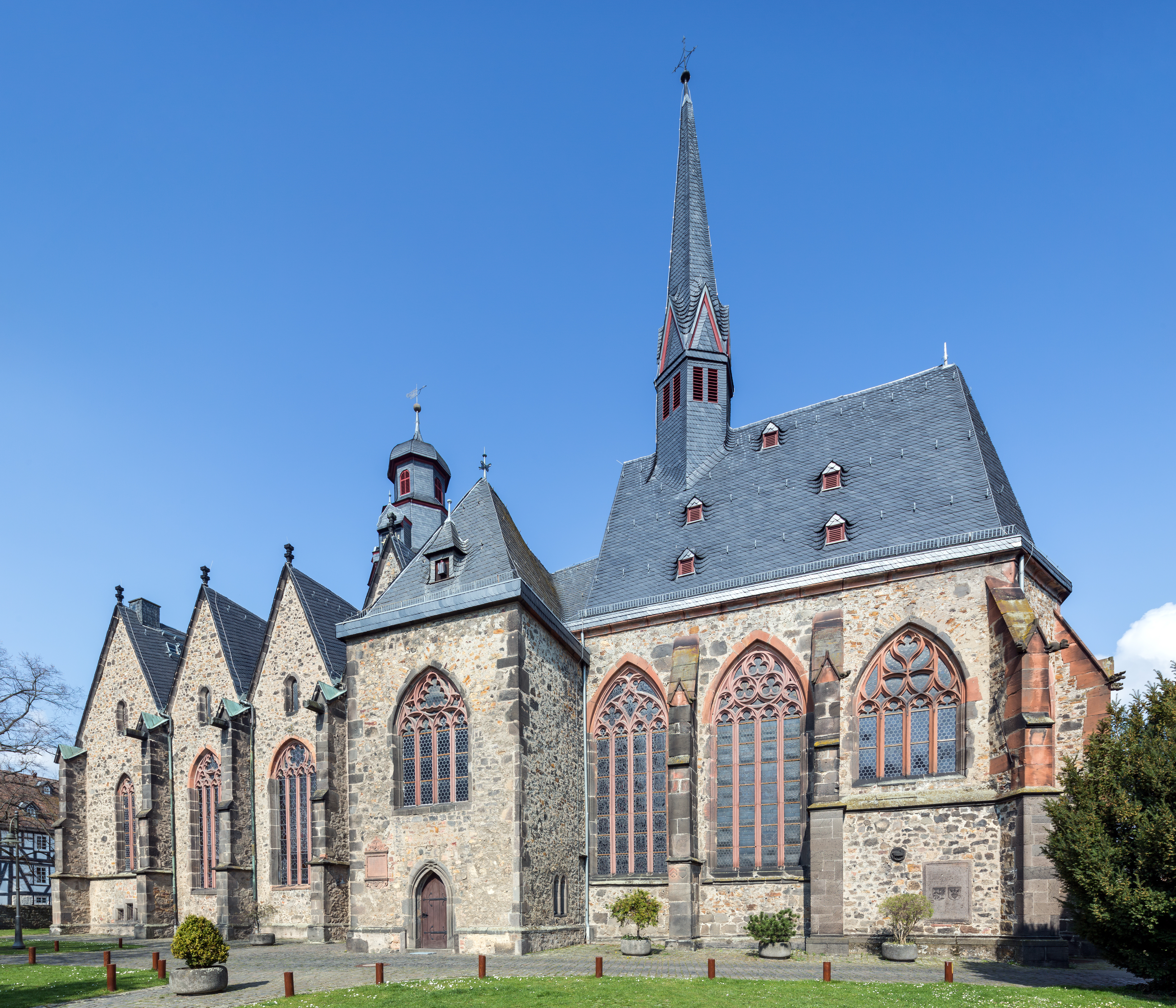 Butzbach: Markuskirche (St. Mark's Church) as seen from the southeast